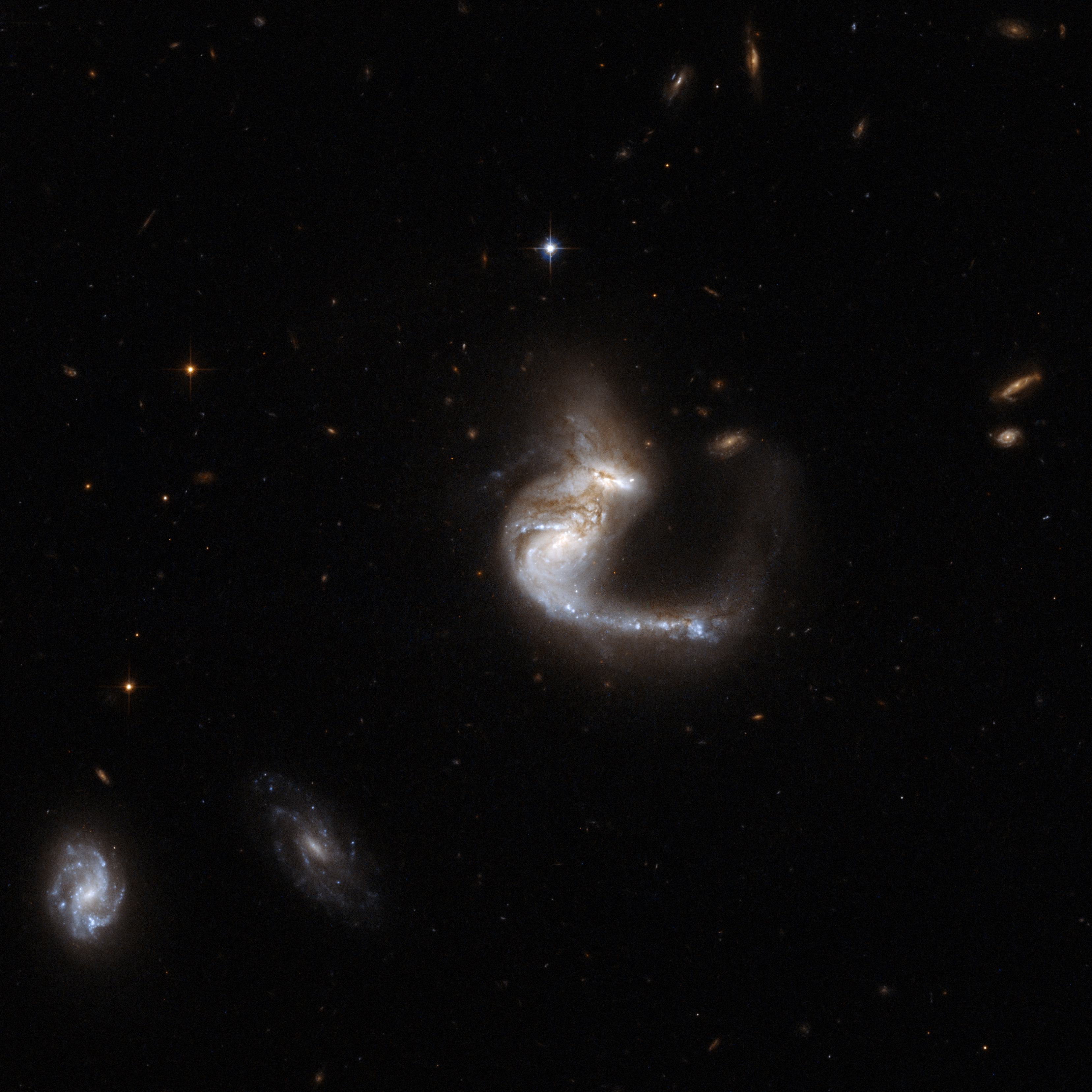 UGC 4881, known as the "The Grasshopper," is a stunning system consisting of two colliding galaxies. It has a bright curly tail containing a remarkable number of star clusters. The galaxies are thought to be halfway through a merger the cores of the parent galaxies are still clearly separated, but their disks are overlapping. A supernova exploded in this system in 1999 and astronomers believe that a vigorous burst of star formation may have just started. This notable object is located in the constellation of Lynx, some 500 million light-years away from Earth. UGC 4881 is the 55th galaxy in Arp's Atlas of Peculiar Galaxies. This image is part of a large collection of 59 images of merging galaxies taken by the Hubble Space Telescope and released on the occasion of its 18th anniversary on 24th April 2008. About the object Object name UGC 4881, VV 155, Arp 055, "The Grasshopper" Object description Interacting Galaxies Position (J2000) 09 15 55.38+44 19 55.3 Constellation Lynx Distance 500 million light-years (150 million parsecs) About the data Data description The Hubble image was created using HST data from proposal 10592: A. Evans (University of Virginia, Charlottesville/NRAO/Stony Brook University) Instrument ACS/WFC Exposure date(s) December 4, 2001 Exposure time 35 minutes Filters F435W (B) and F814W (I)